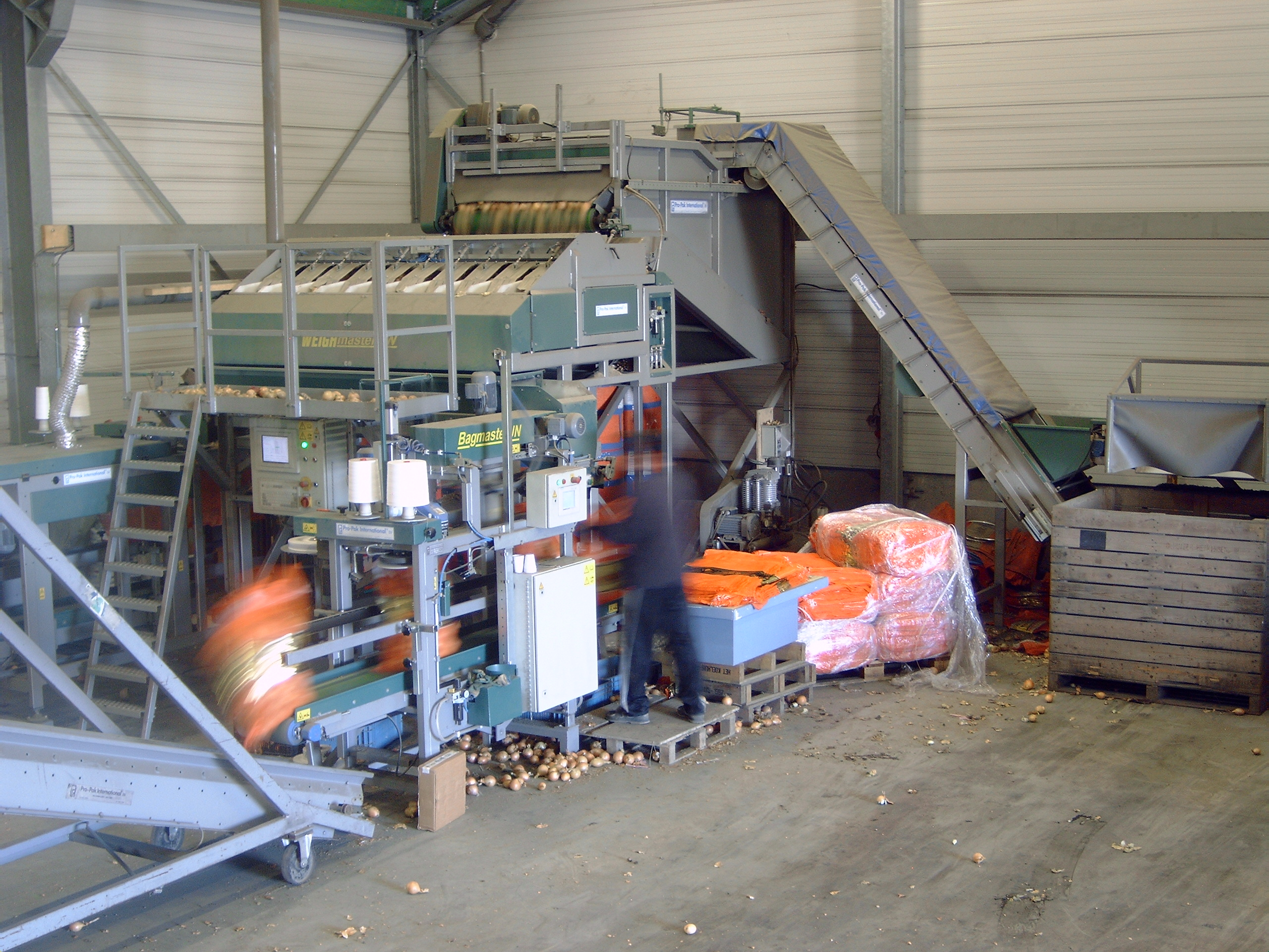 Pro-Pak weighing machine for onions